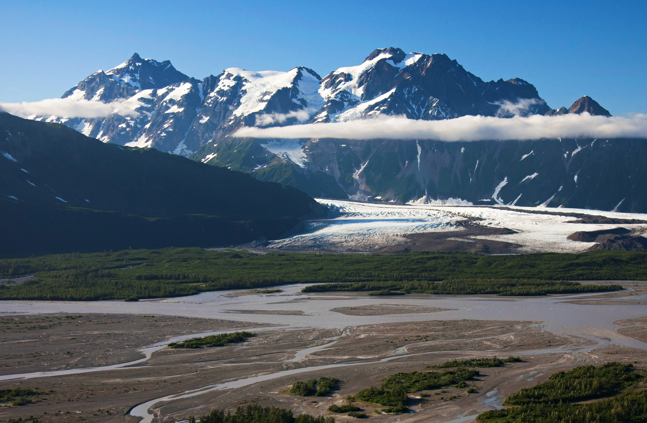 Aerial of Childs Glacier and the Copper River, Chugach National Forest near Cordova, Alaska. Mts. Williams and O'Neel.